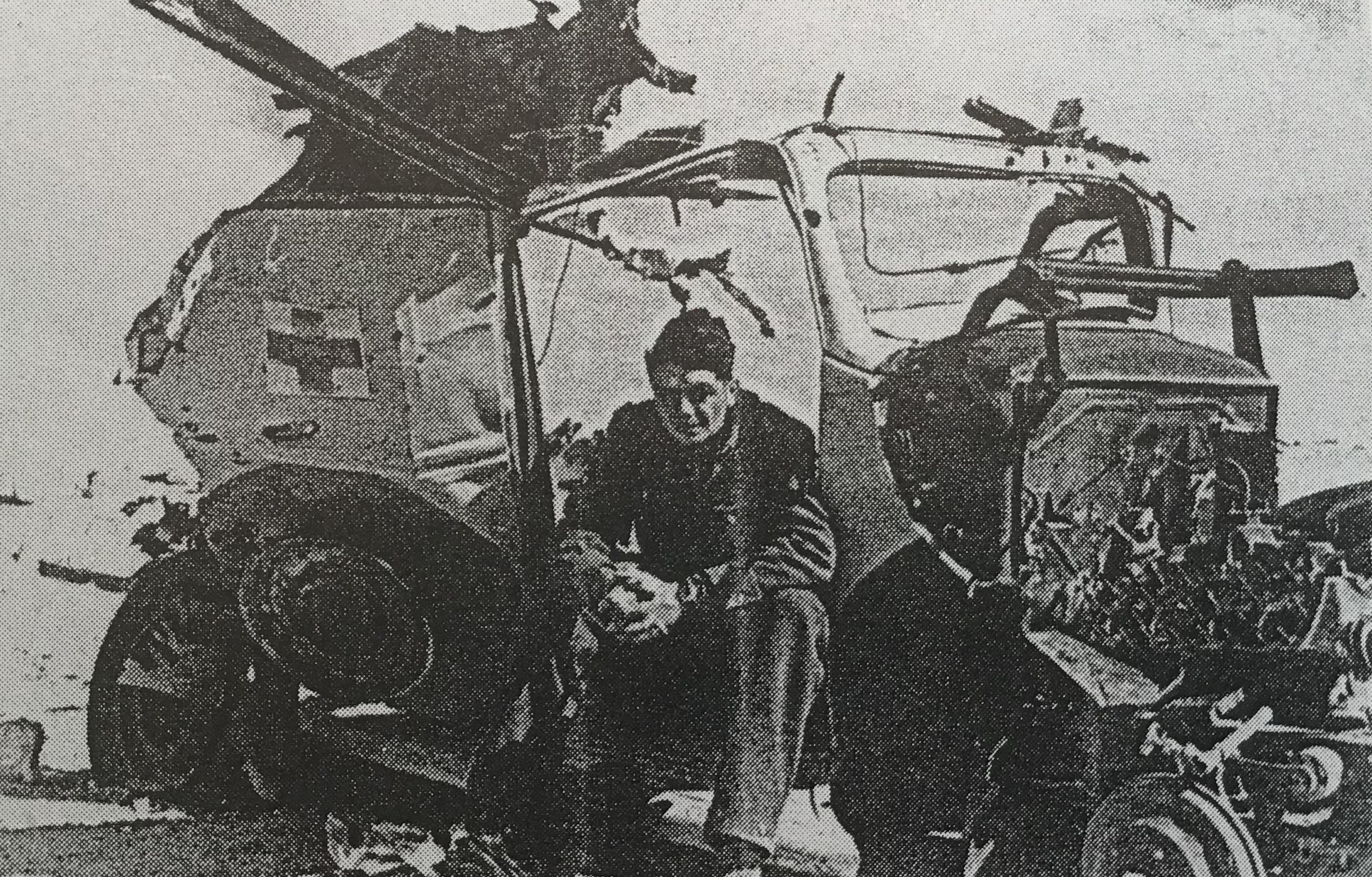 Captain Paul Guénon in front of his ambulance destroyed in Bir Hakeim